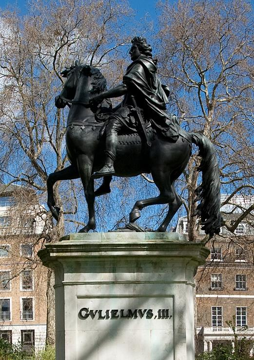 Crop of User:Diliff's panorama of St. James's Square, London (File:St James's Square, London - April 2009.jpg)